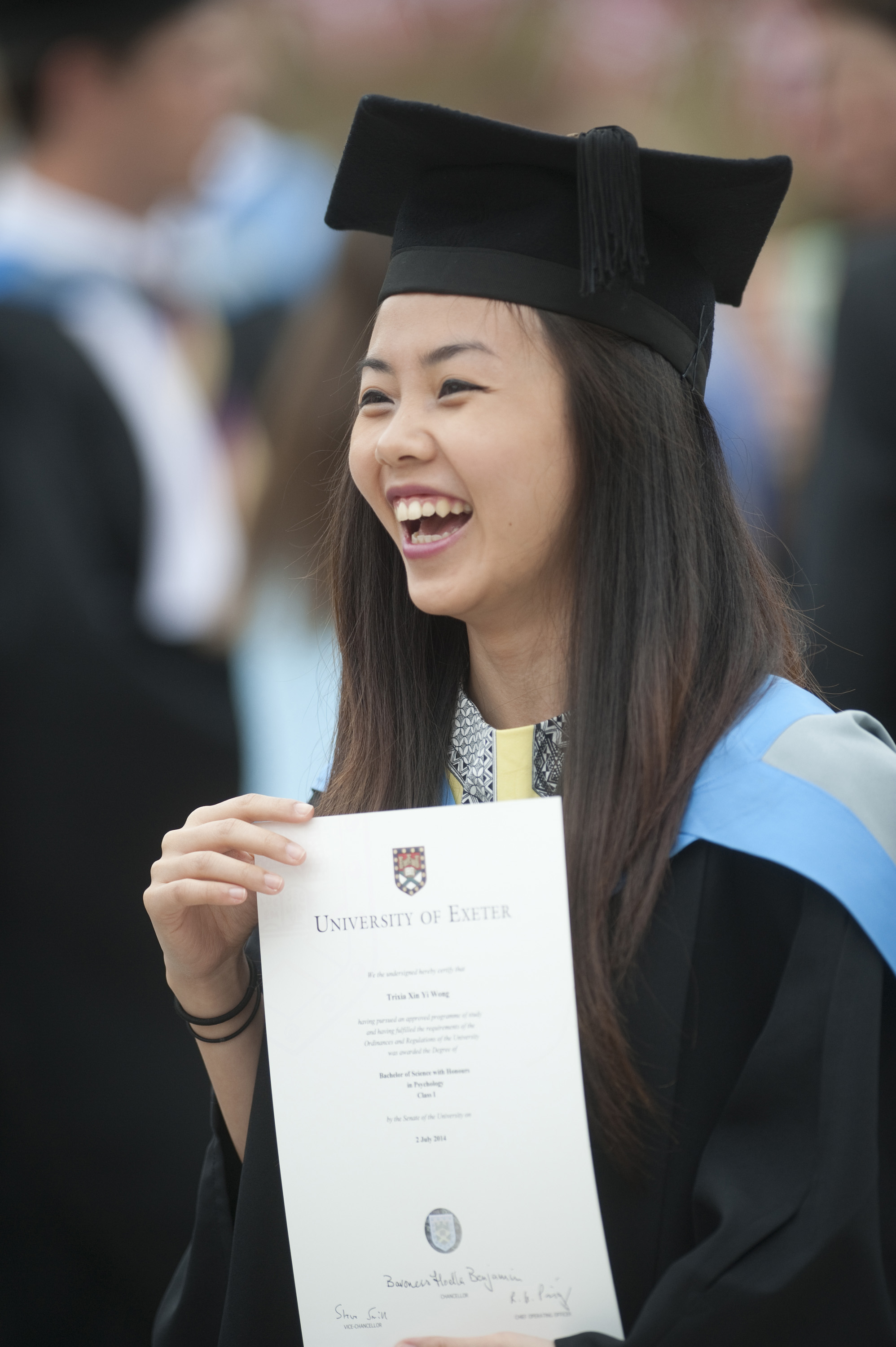 Graduate from University of Exeter